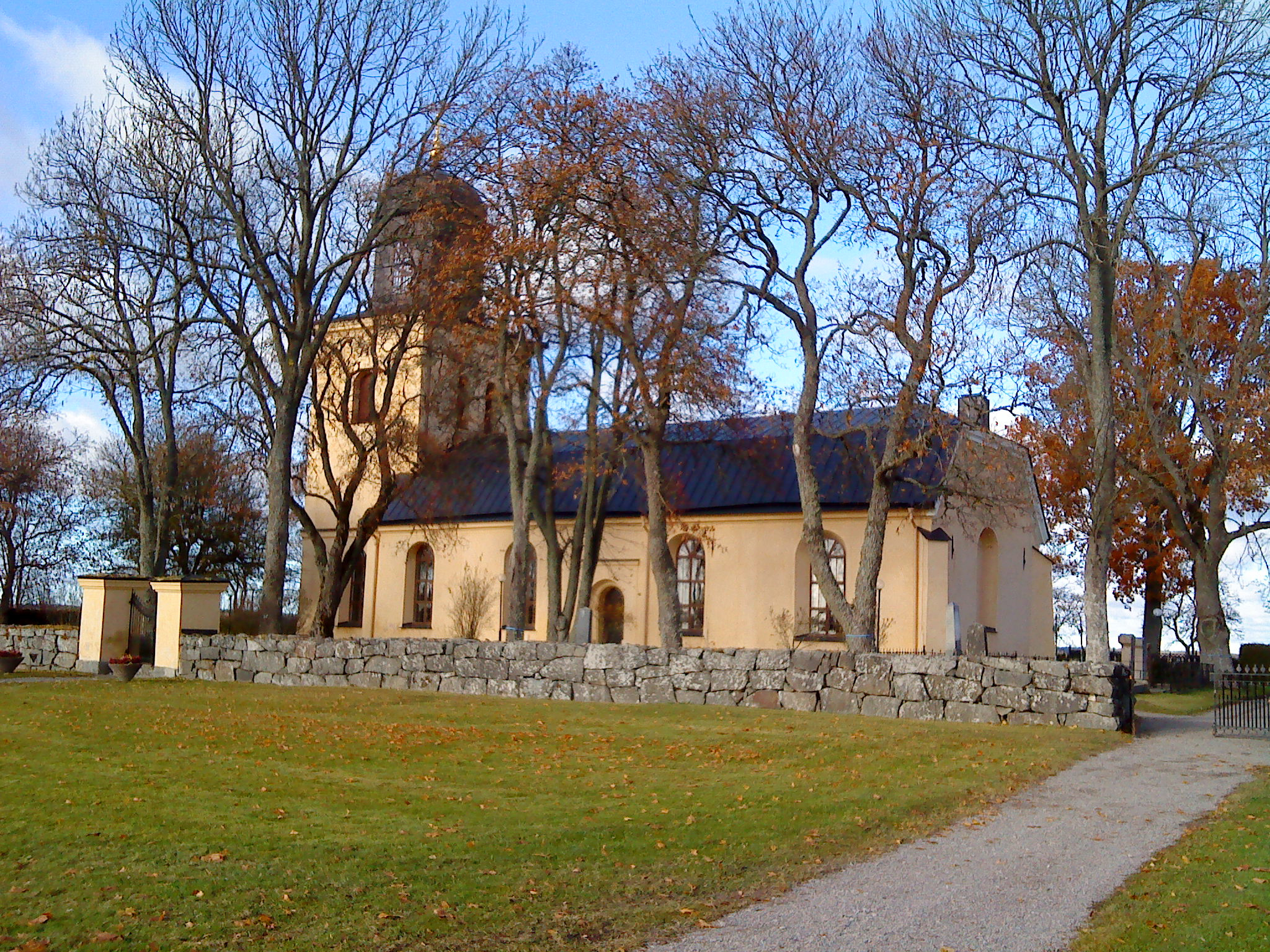 The Haraker parish church, Diocese of Västerås, Sweden